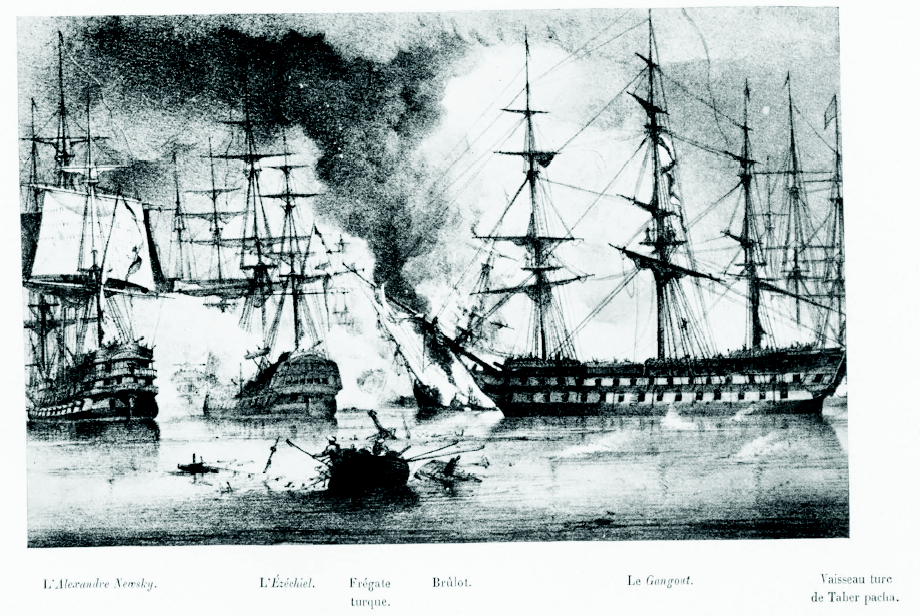 Russian ships.